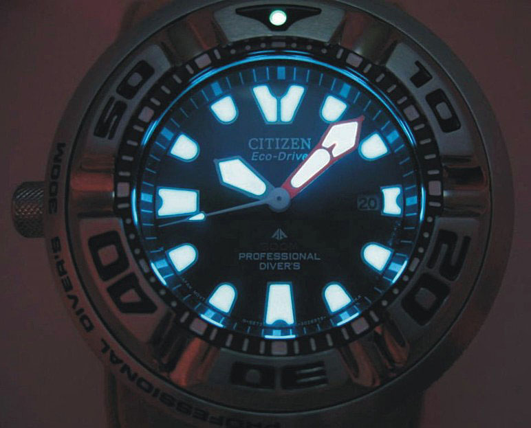 Phosphorescent paint pigment (lume) applied on a Citizen Promaster Eco-Drive BJ8050-08E Diver's 300 m (tool watch suitable for mixed breathing gas diving) to make it readable in low light conditions. The B873 caliber Eco-Drive movement used in this watch can run for 180 days on its secondary power cell before it needs light exposure for recharging.